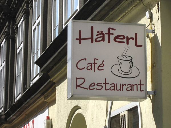 Examples for differing vocabulary in Austrian Standard German A "Häferl" is a small "Häfen" (pot), here it means a cup of coffee.